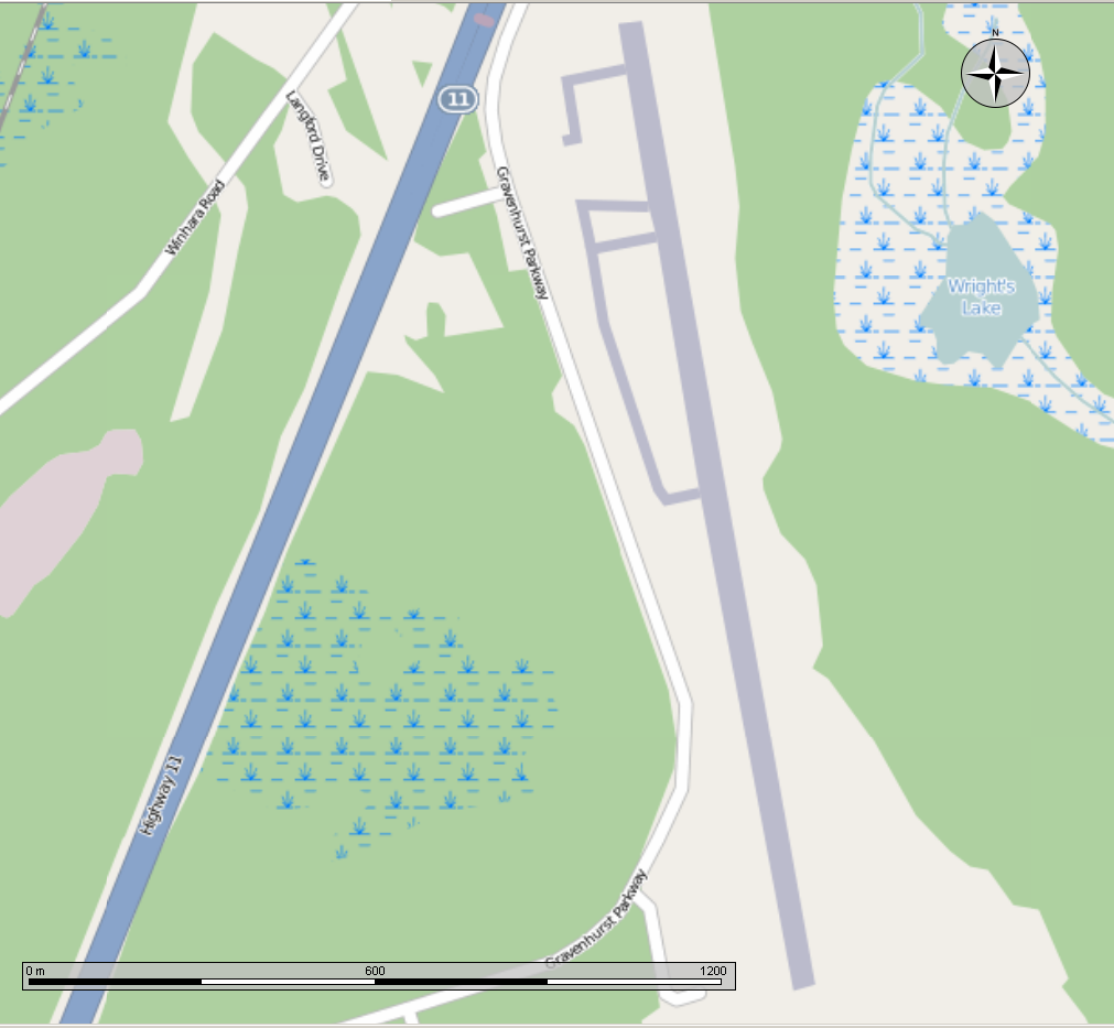 Open Street Map of the Muskoka Airport in Gravenhurst, Ontario. Made with the Marble program and cropped with GIMP.